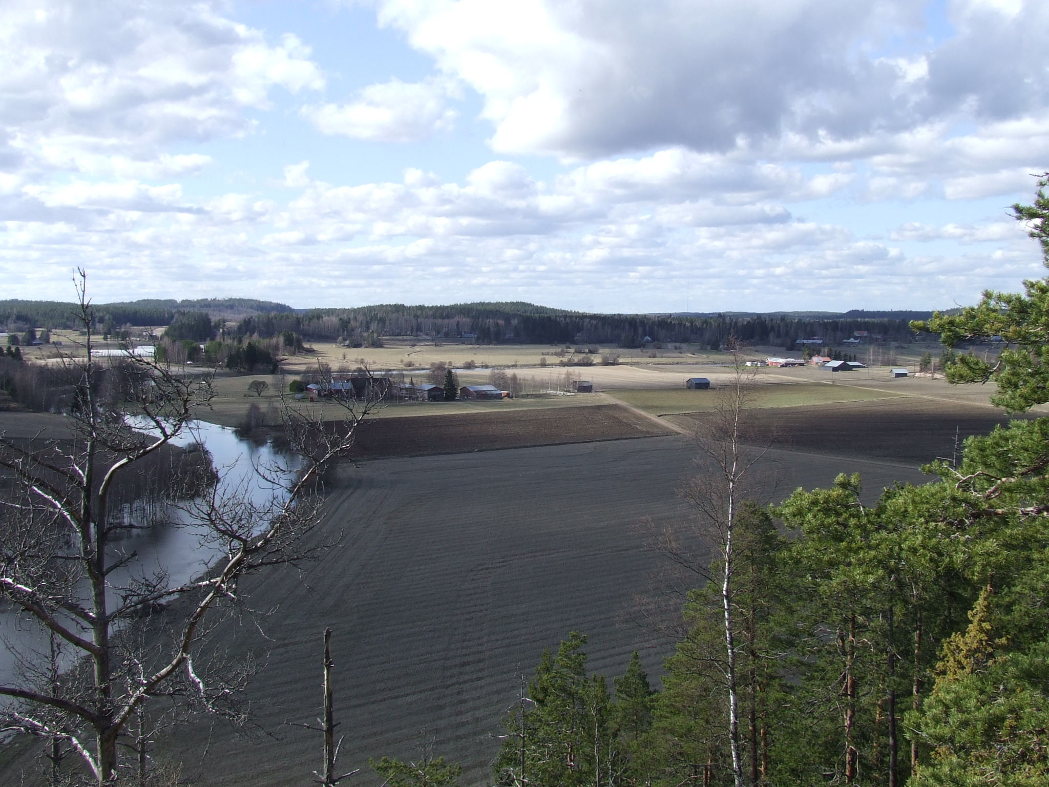 Reitkalli village in Hamina, Finland, seen from the Suurvuori hill. Summa River is on the left side of the picture.